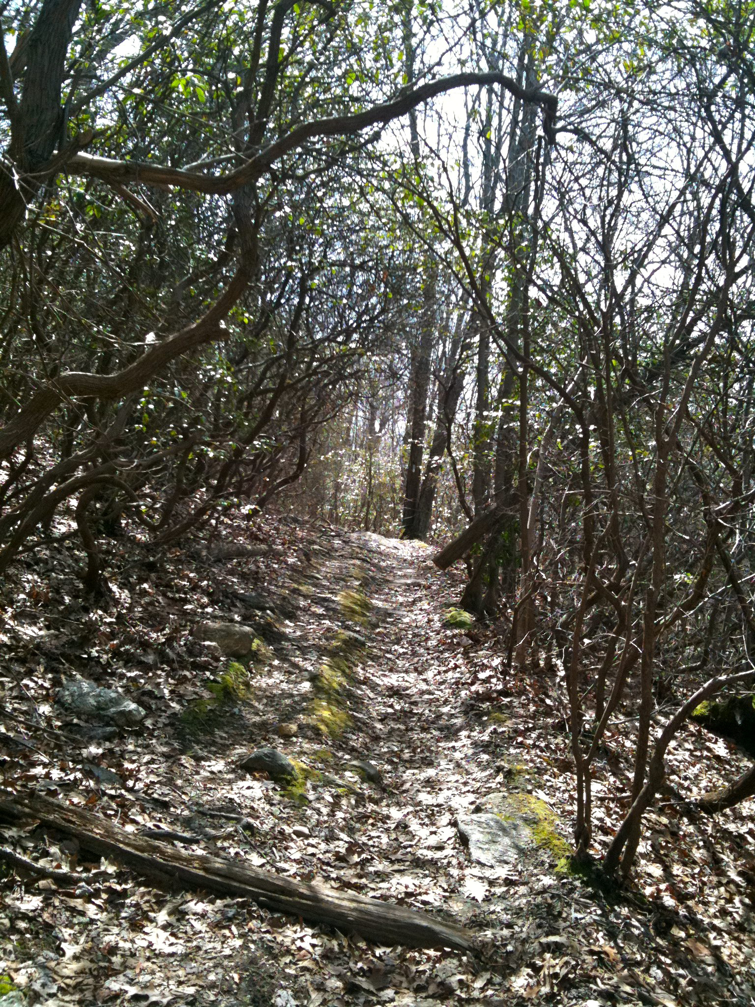 Whittemore side trail of Naugatuck Blue-Blazed hiking trail. Blazed Blue-White. Bethany, CT in Naugatuck State Forest.